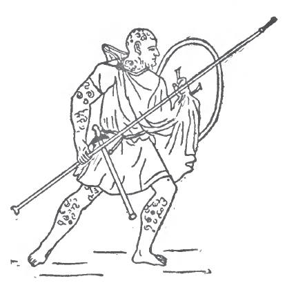 African lancer, as printed in Theodore Ayrault Dodge's A HISTORY OF THE ART OF WAR AMONG THE CARTHAGINIANS AND ROMANS DOWN TO THE BATTLE OF PYDNA, 168 B. C., WITH A DETAILED ACCOUNT OF THE SECOND PUNIC WAR Houghton Mifflin Company, Boston & New York (1891). Hand scanned.